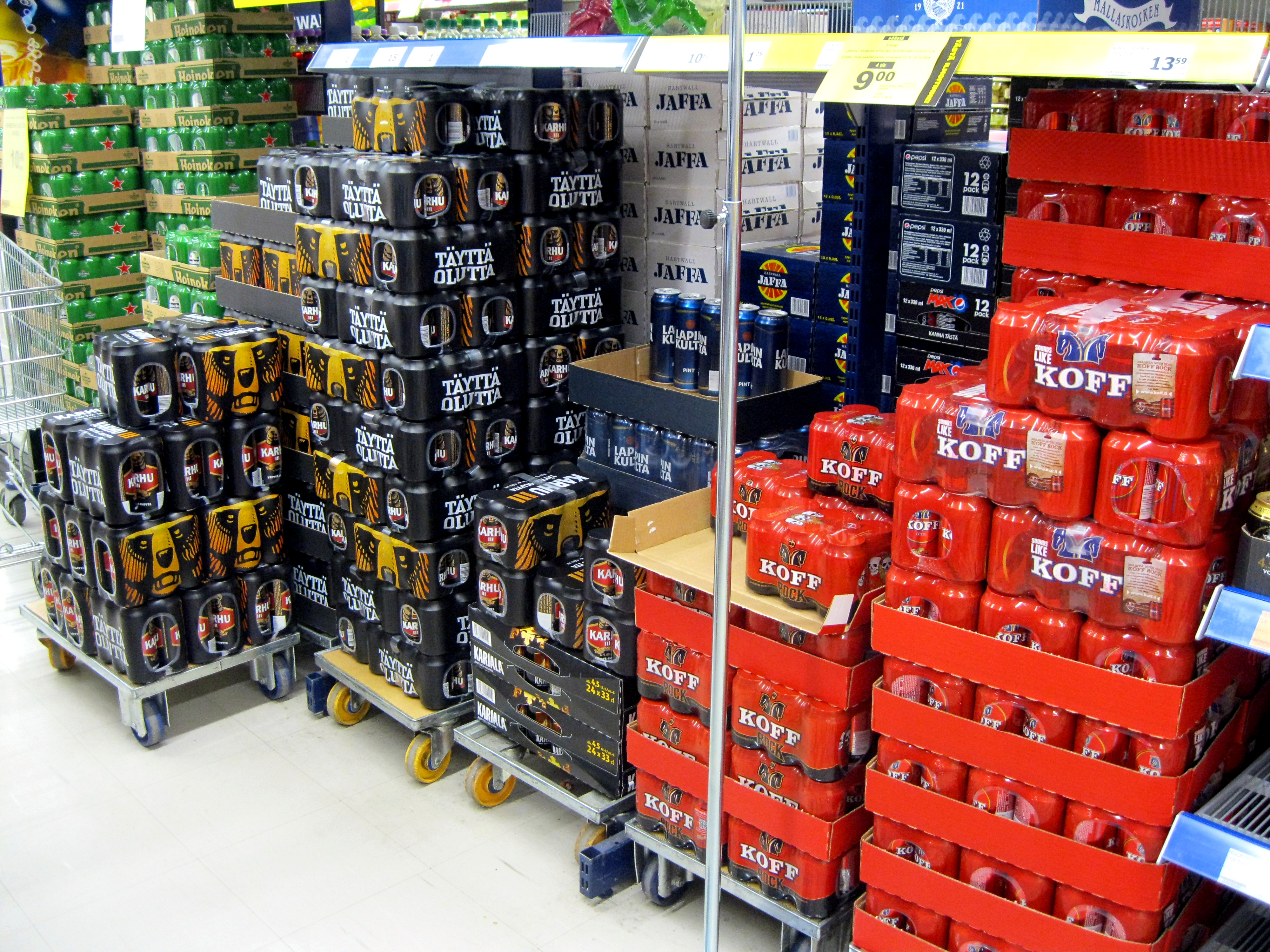 Karhu, Lapin Kulta ja Koff beer cans in Finnish market.